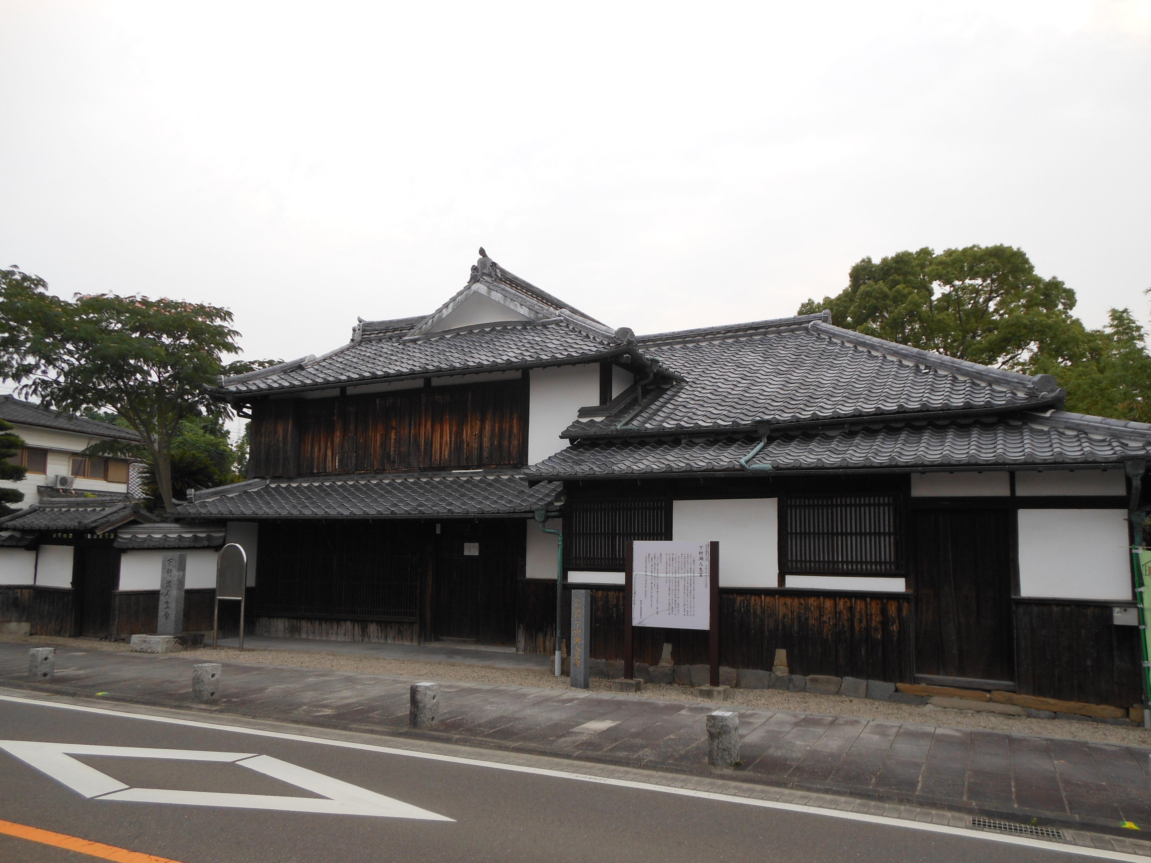 Birthplace of Kojin Shimomura, Japanese writer, in Kanzaki City, Saga Prefecture.